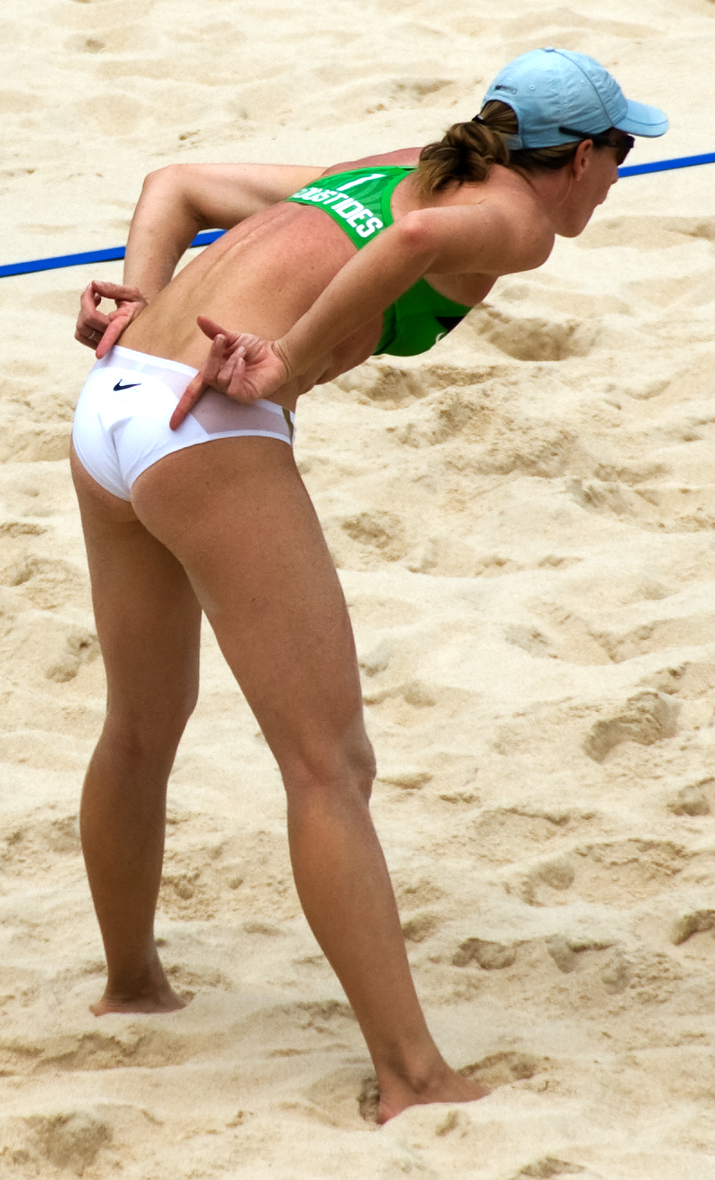 Judith Augoustides, South African beach volleyball player, at the 2008 Summer Olympics.